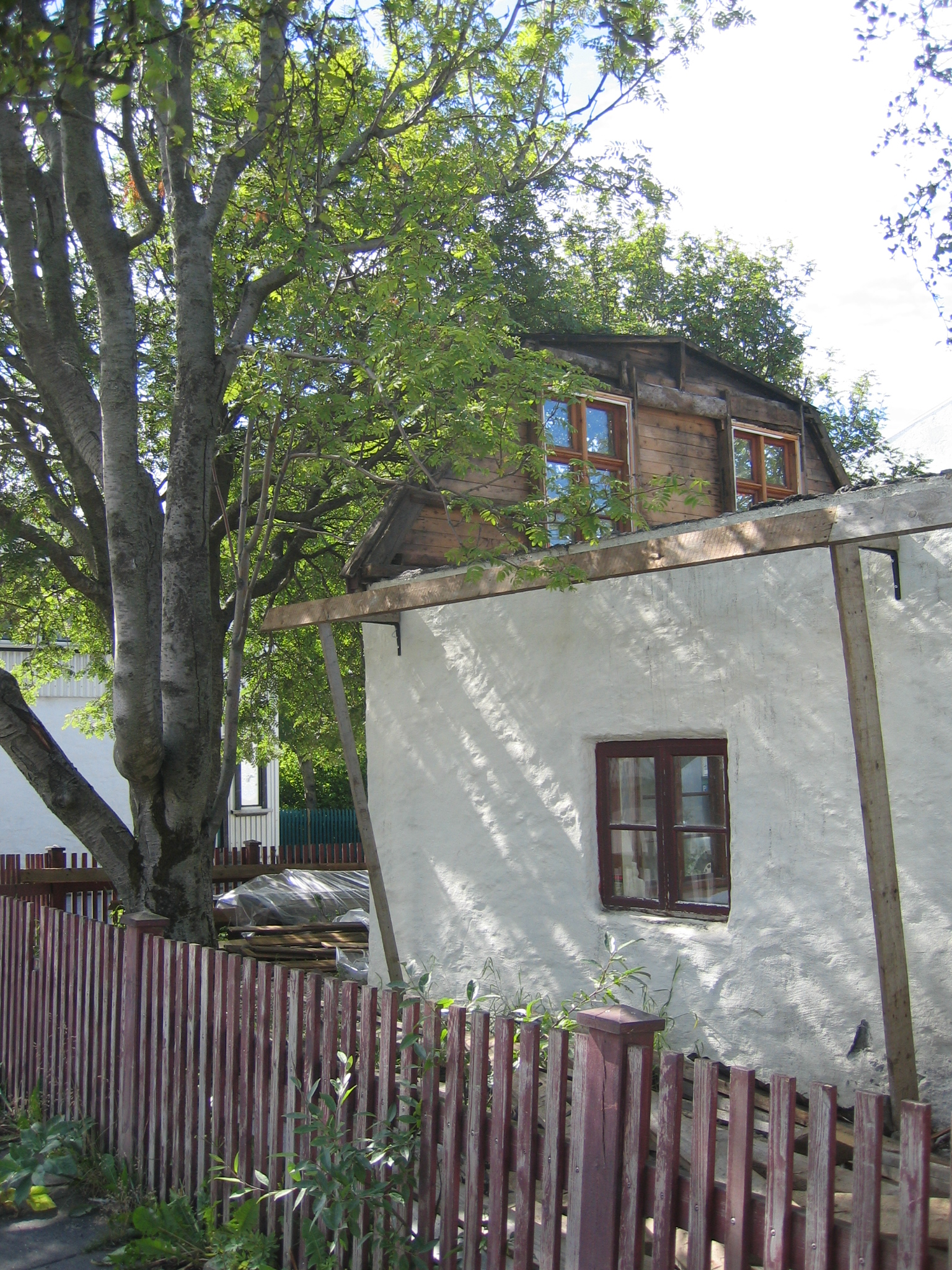 steinbær in Reykjavík